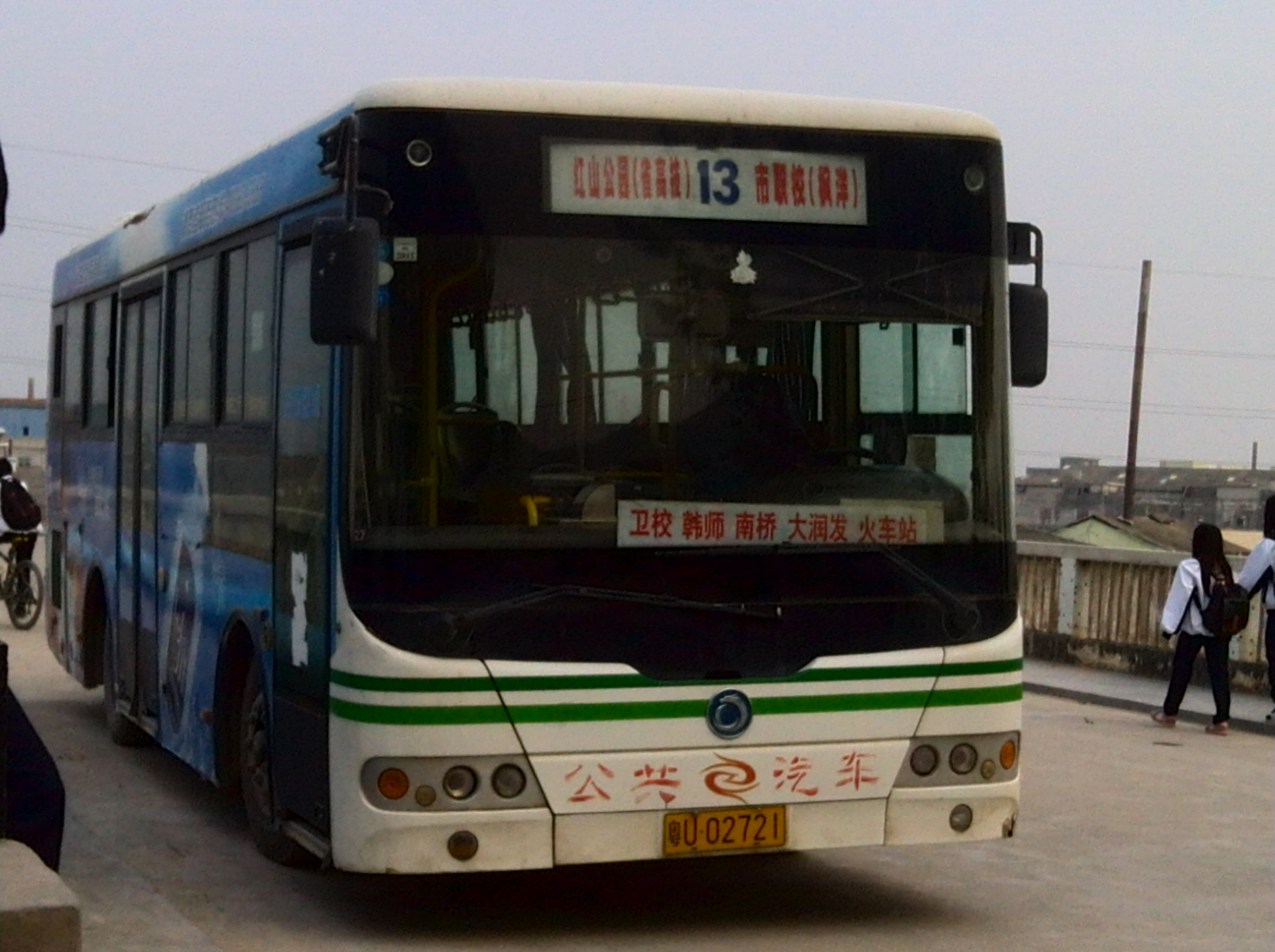 Chaozhou bus